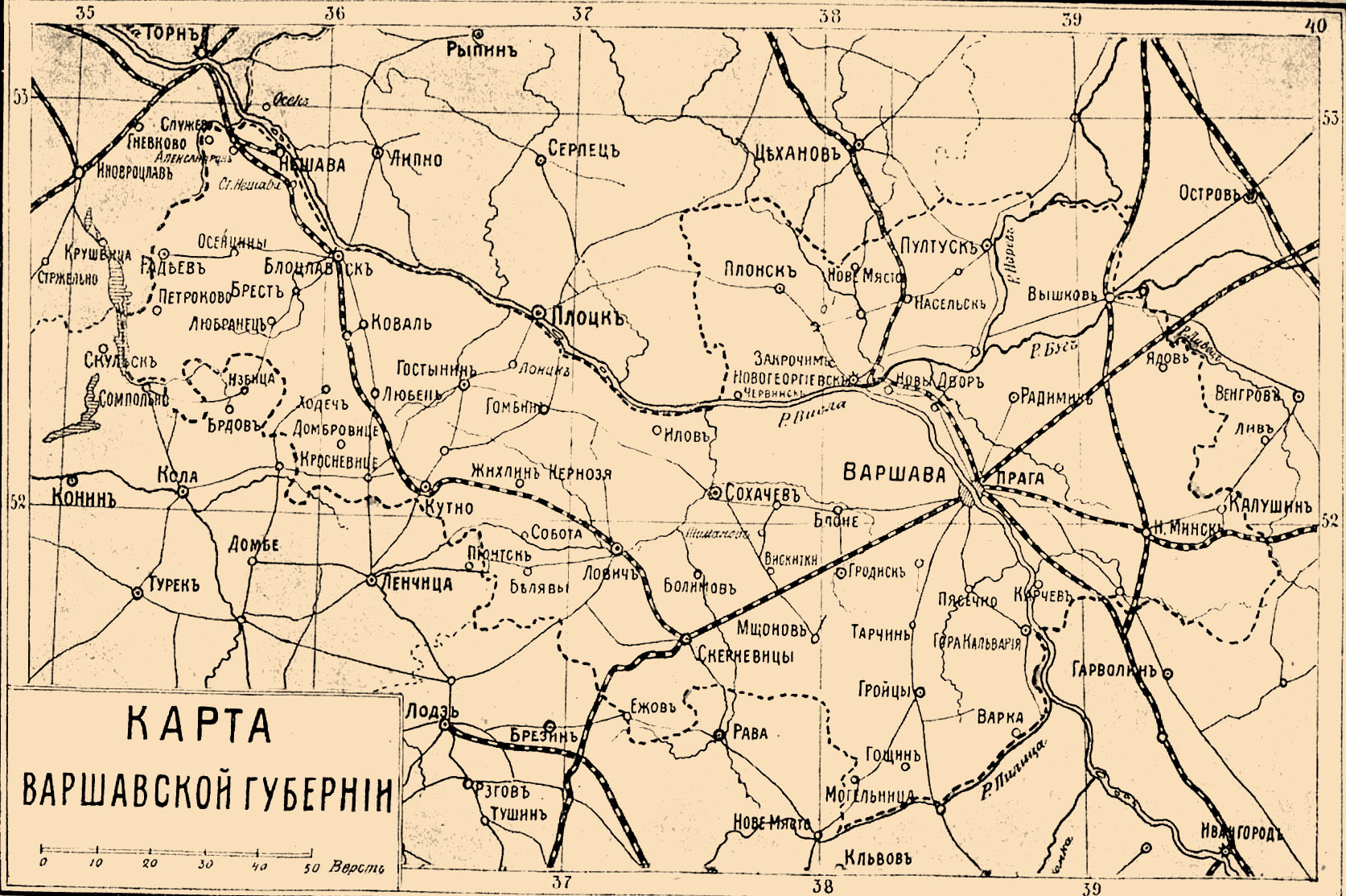 Illustration from Brockhaus and Efron Jewish Encyclopedia (1906—1913)